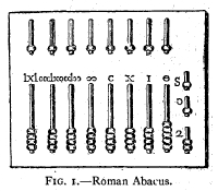 This image is taken from the 1911 Encyclopedia Britannica, which is in the public domain.